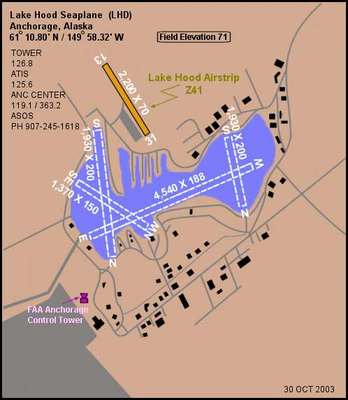 Diagram of Lake Hood Seaplane Base (FAA: LHD) in Anchorage, Alaska, United States.